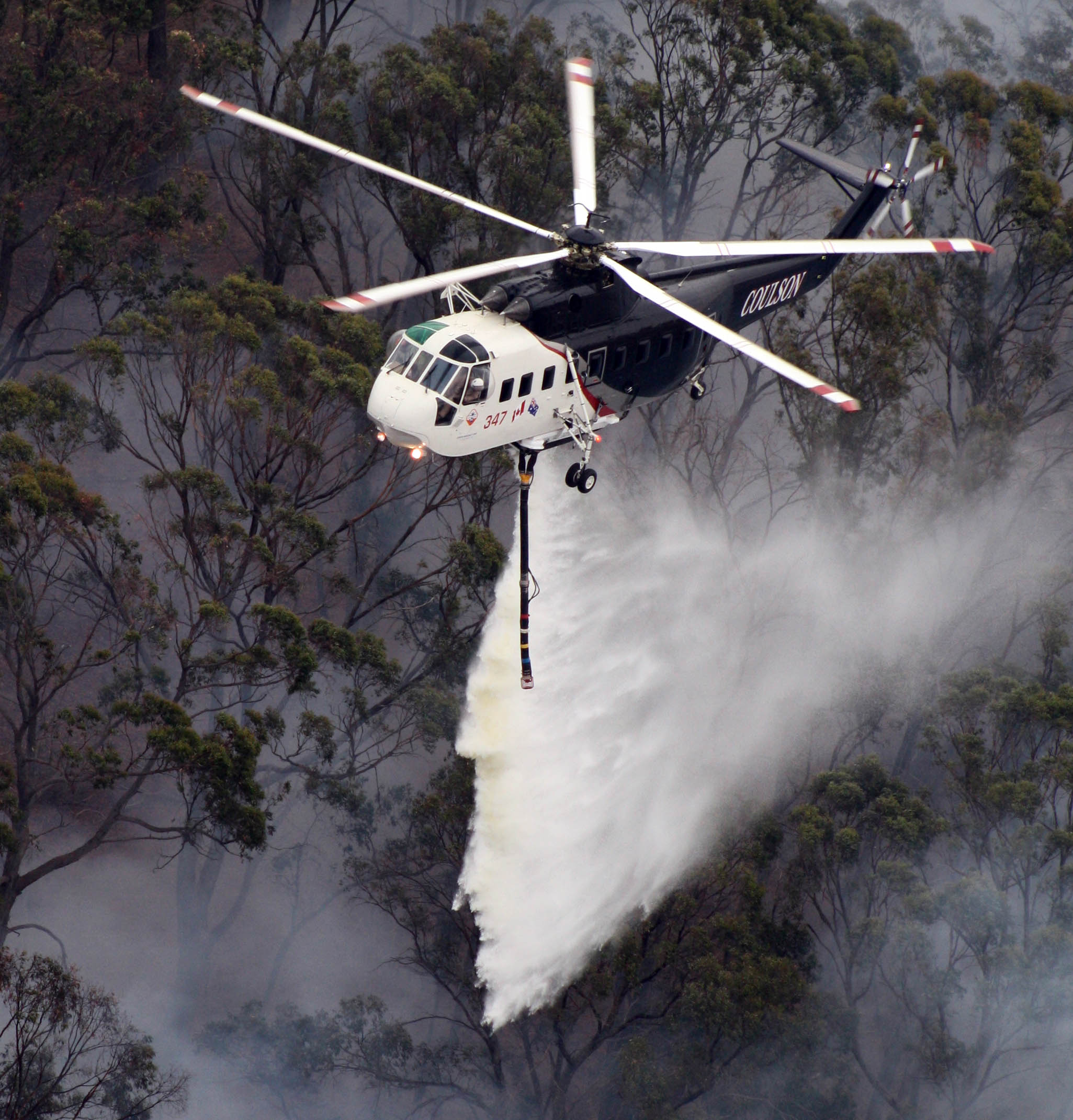 This was taken during the 2009/2010 Fire Season in Victoria State, Australia.